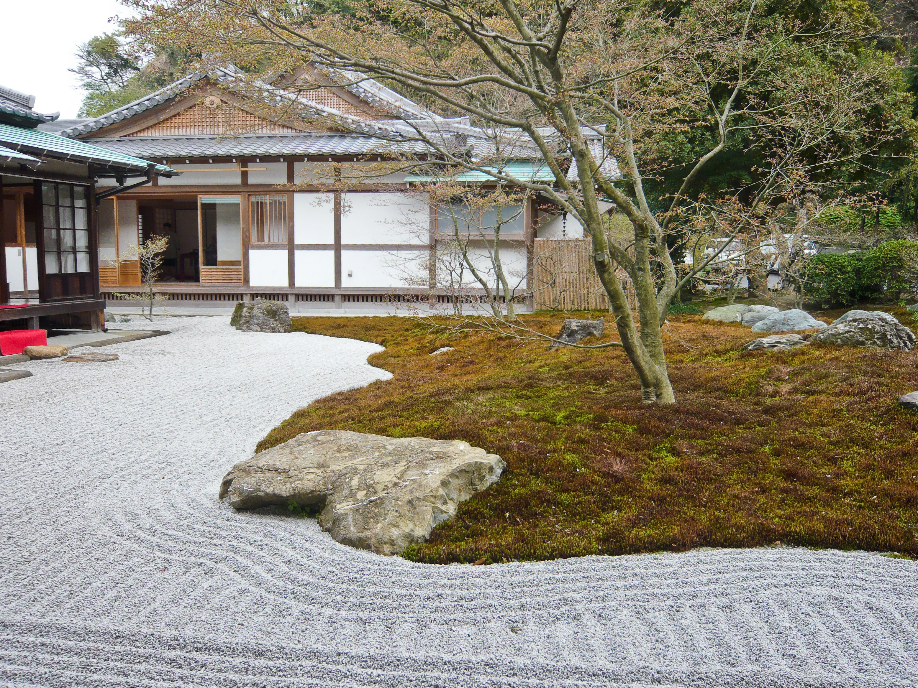 Chōjū-ji's rear garden